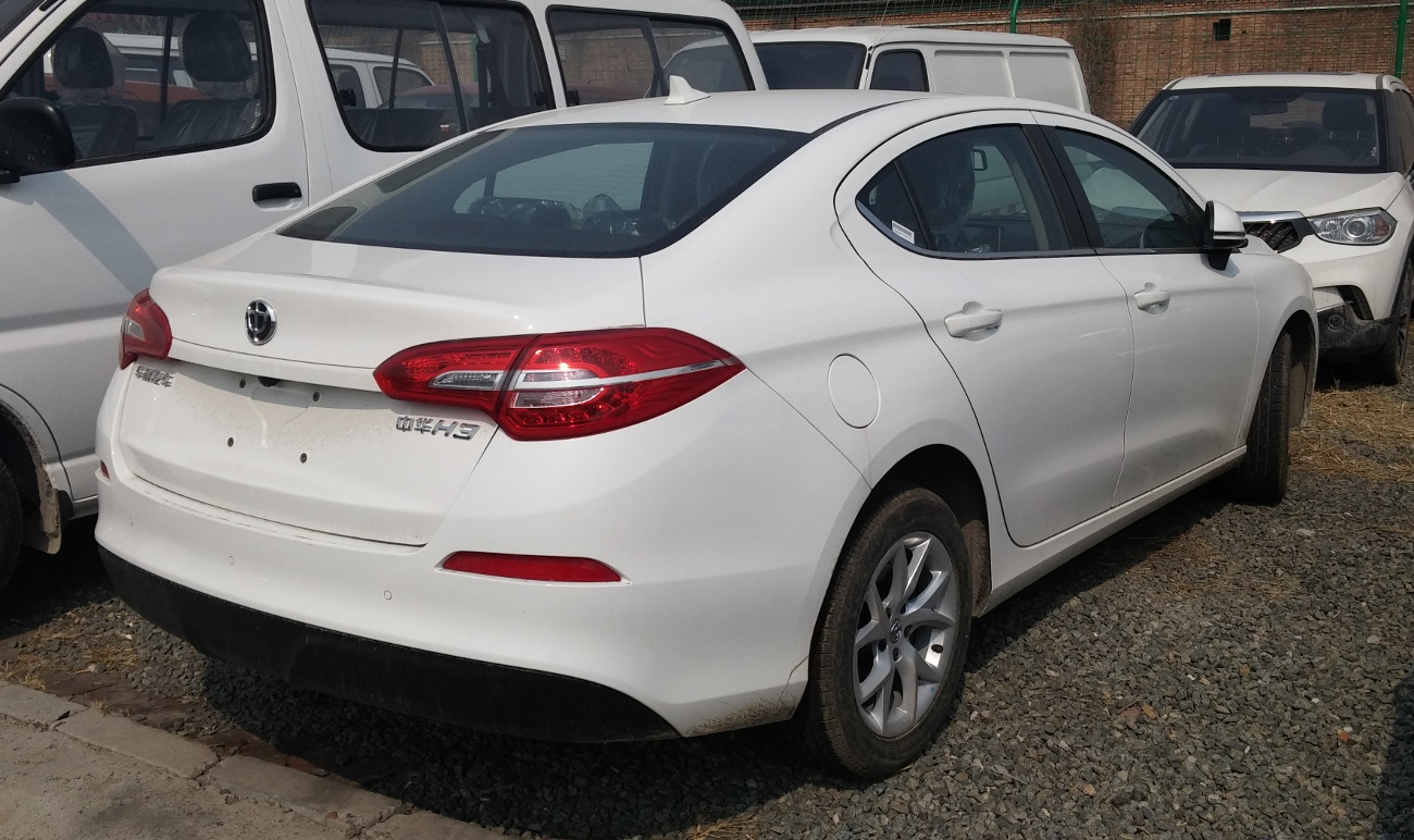 Brilliance H3 photographed in Beijing, China.